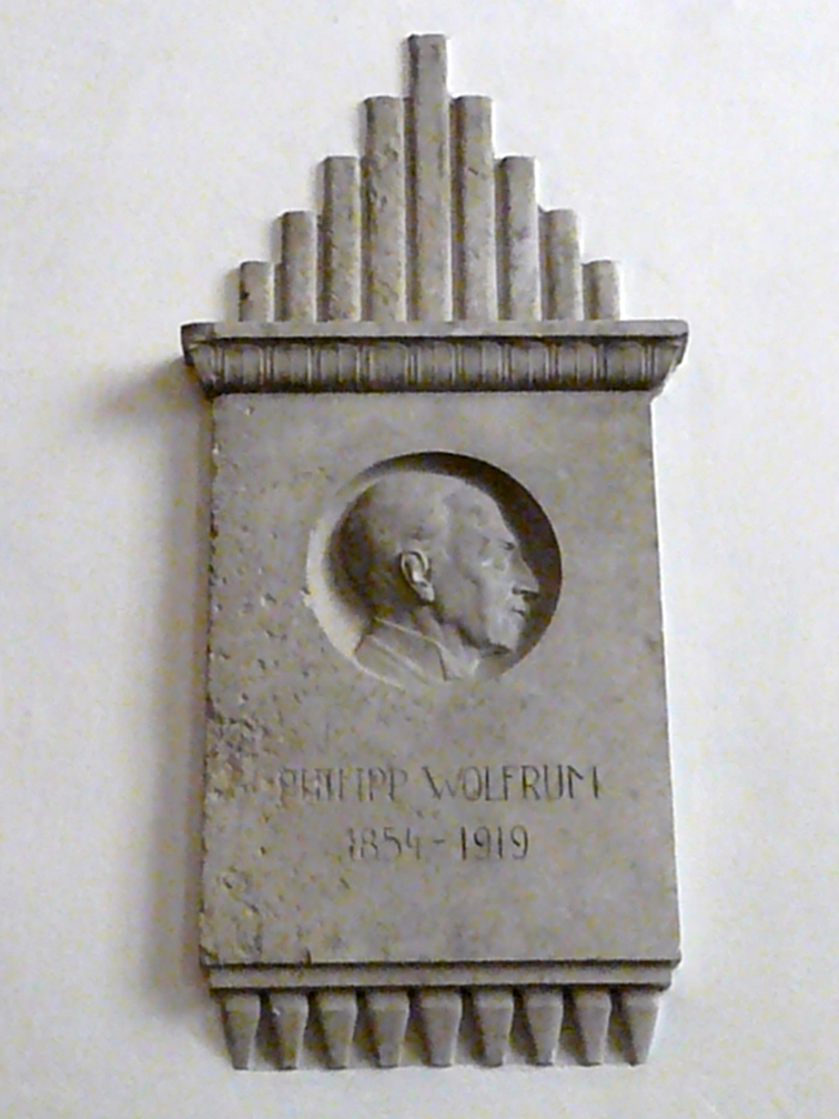 Plaque for german composer Philipp Wostrum